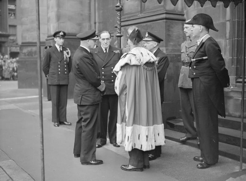 The Career of Admiral Sir Andrew Cunningham Admiral Sir William Whitworth, Commander in Chief Rosyth, (left) with (right of centre group) Admiral Sir Henry Moore, Commander in Chief Home Fleet, and the Lord Provost of Edinburgh gather outside St Giles Cathedral in Edinburgh for the installation of Admiral Lord Cunningham as a Knight of the Thistle. The ceremony took place in the presence of the Royal Family.